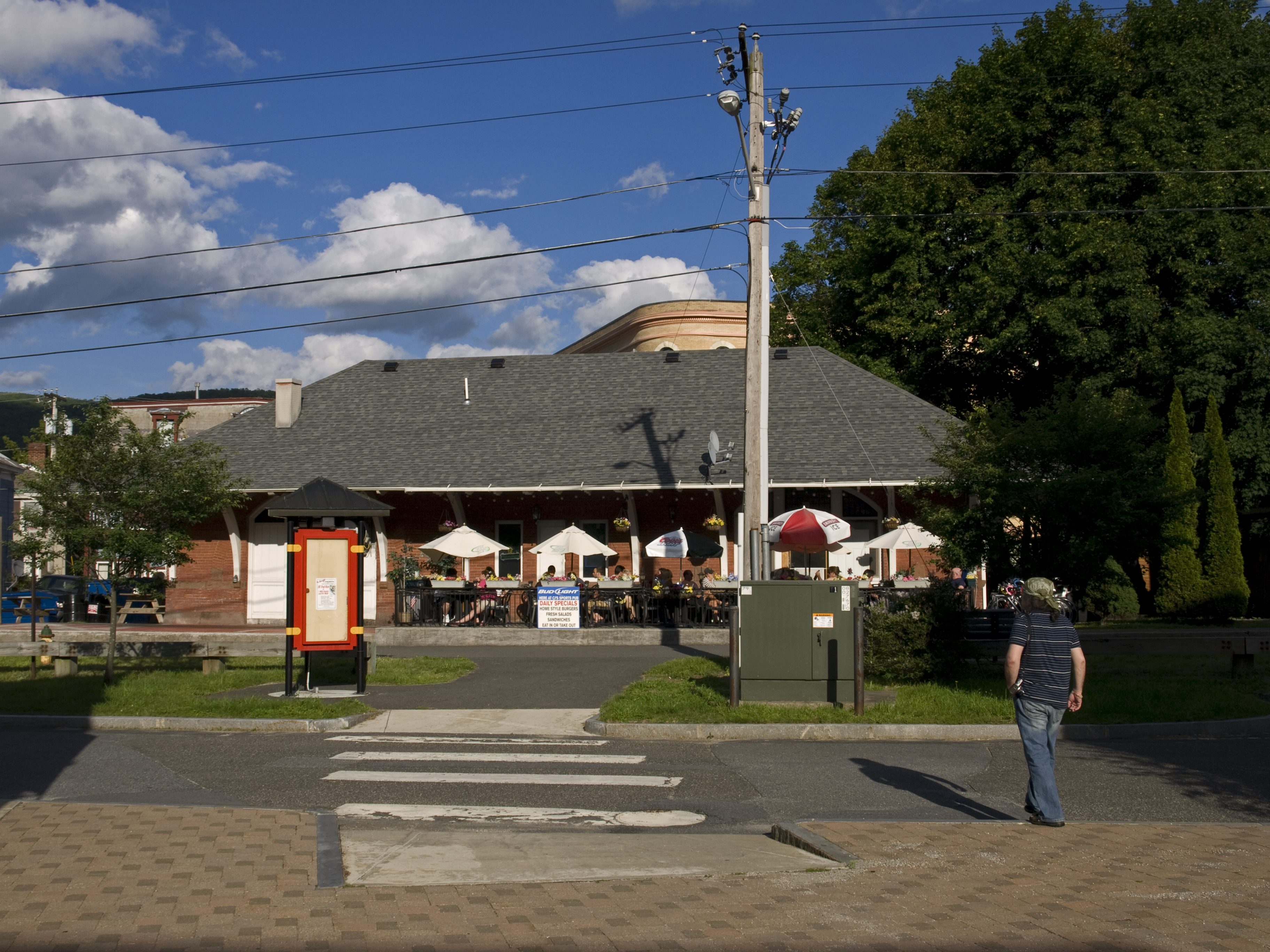 The former Adams railway station, 12 Pleasant Street, Adams, MA